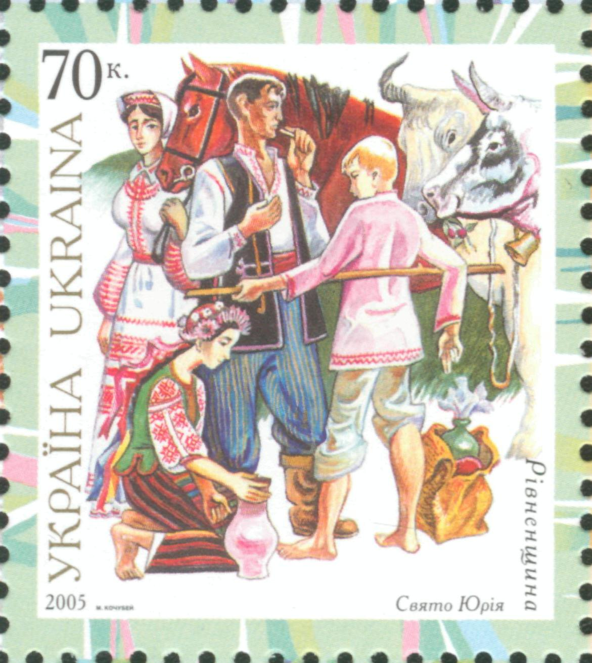 Stamp page (6 stamps) with Ukrainian traditional clothing